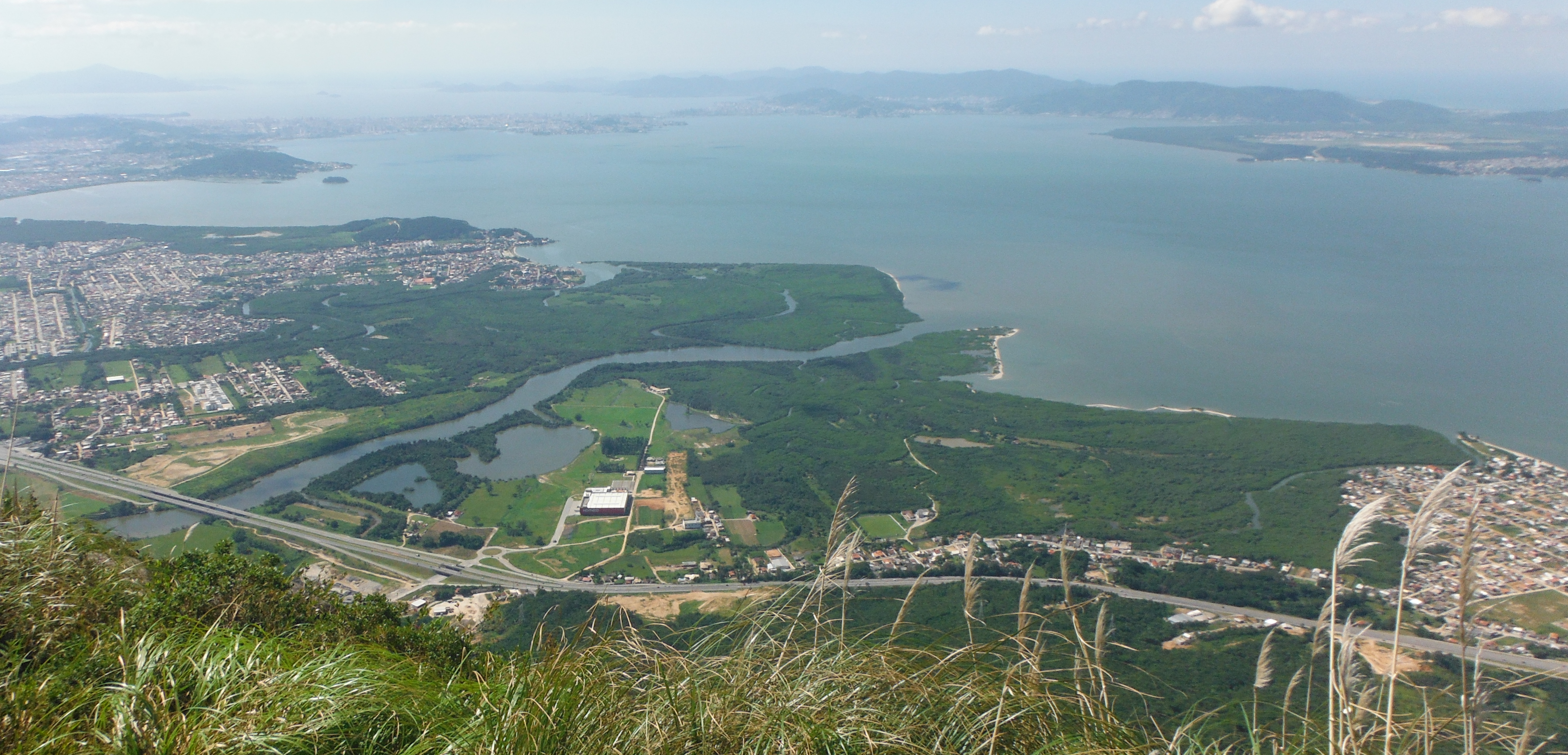 Cubatão do Sul river mouth, located on Palhoça, southern Brazil